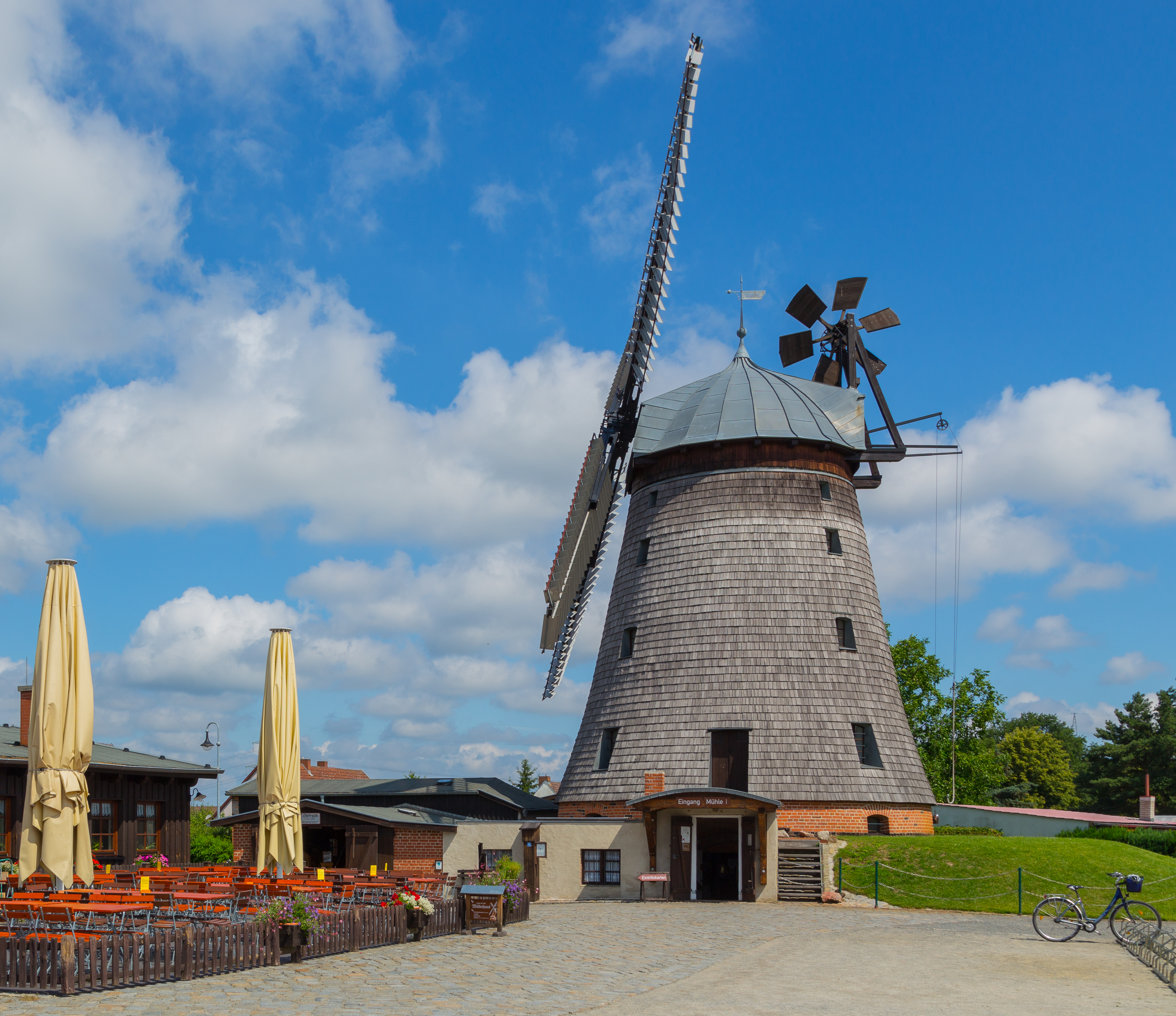 Windmill in Straupitz, Landkreis Dahme-Spreewald, Brandenburg, Germany.